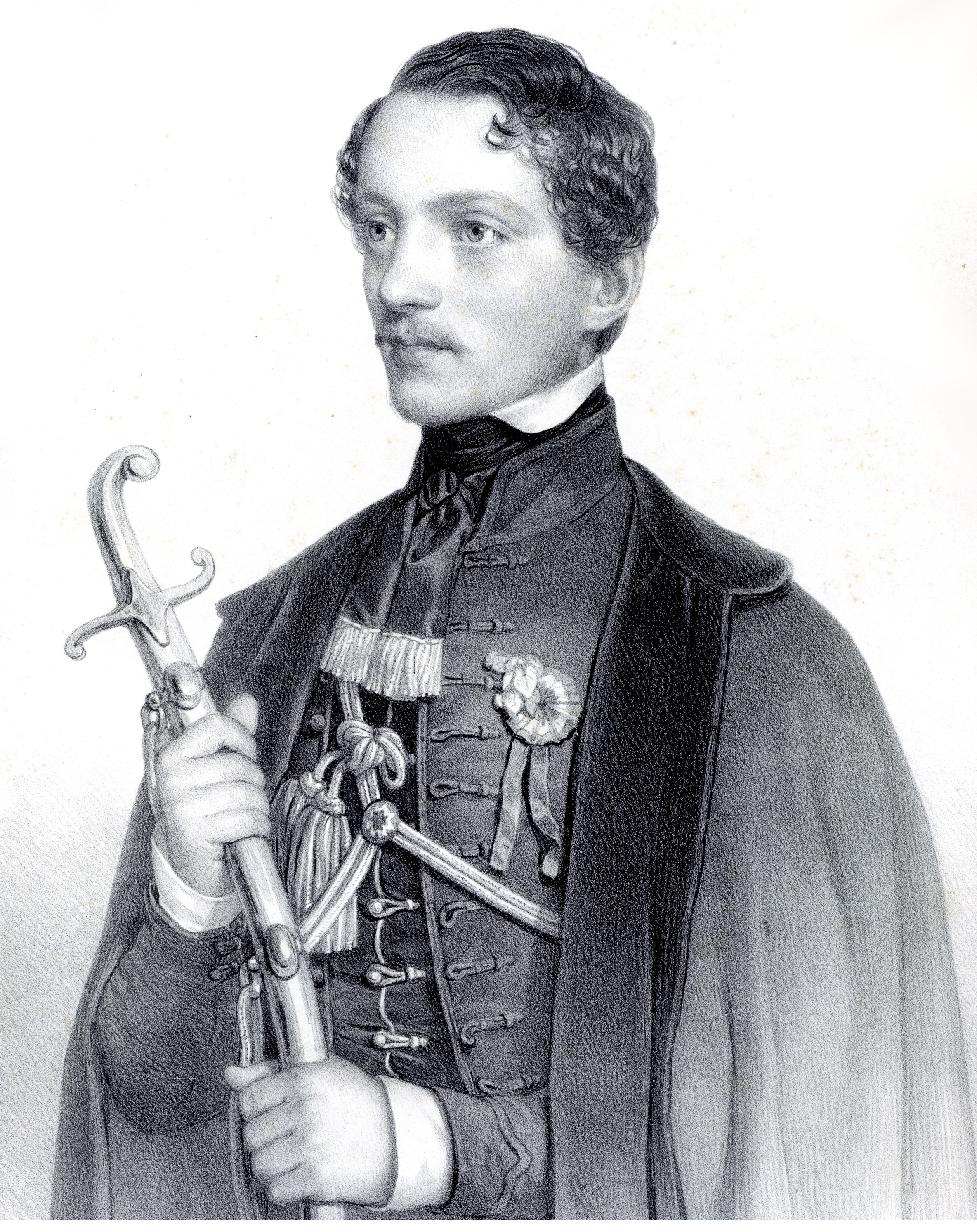 Vasvári Pál cutting